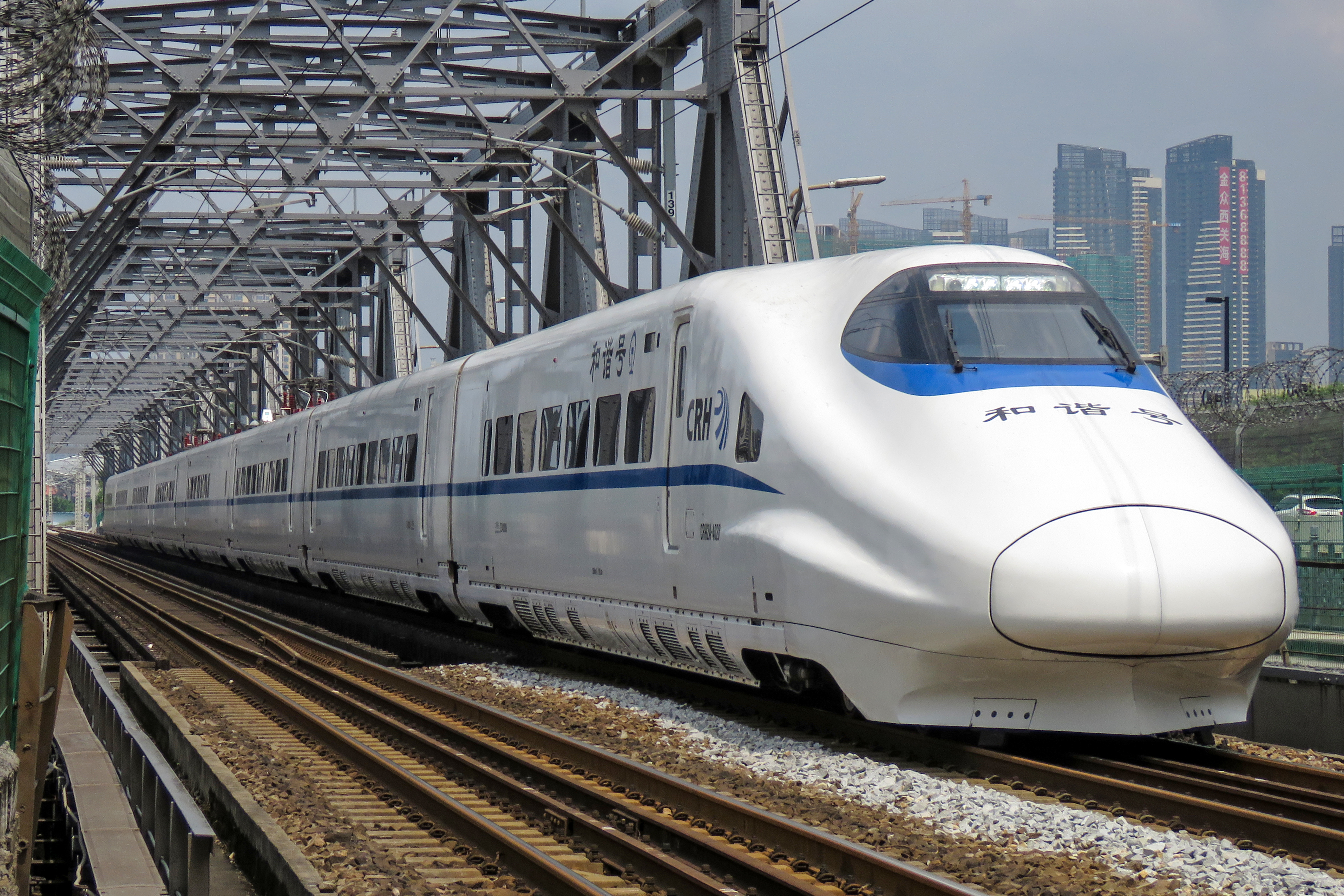 First shot of southbound trains on this bridge - after a northbound DF4 just passed by.